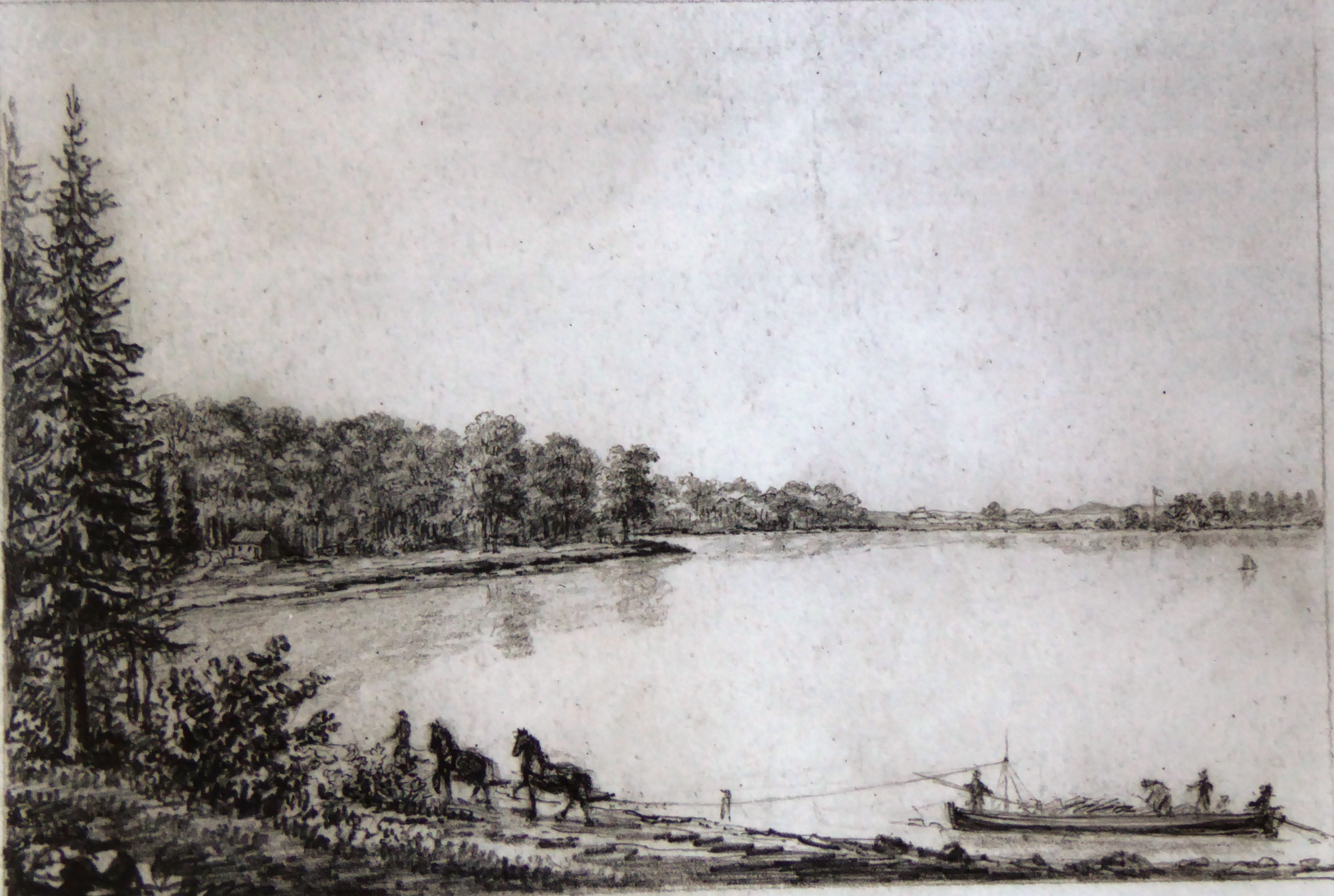 Brænde flådes langs Grib Skovs kant ved Esrum Søs bred. Pramdrengen leder på breden to heste, der trækker prammen med langt tov, og pramføreren holder den fri af breden med en lang stage. Tegning ca. 1830.